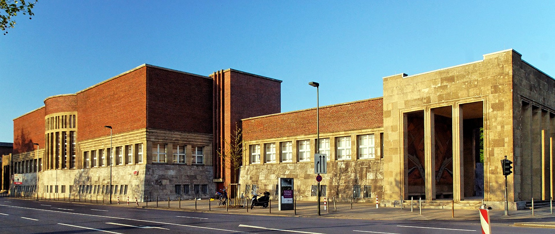 NRW-Forum in Düsseldorf-Pempelfort, Germany